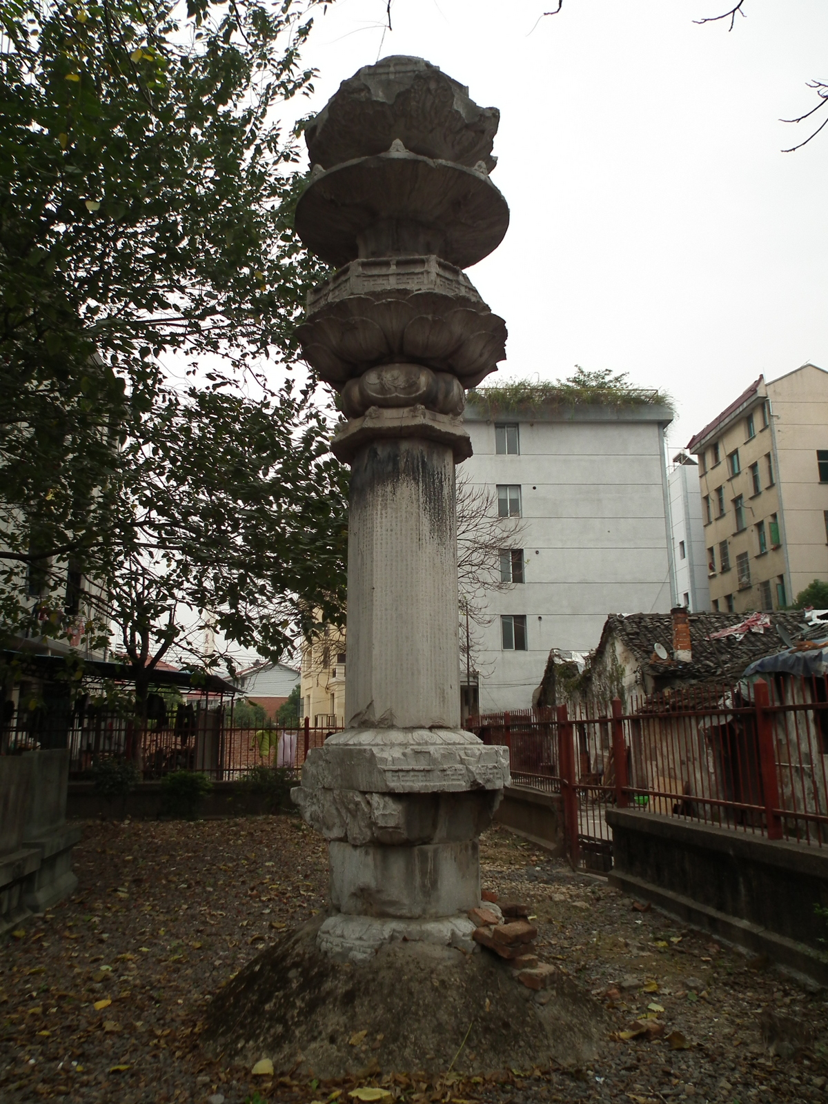 Falong Temple Pillar Column, located at Jinhua, Zhejiang, China.中文（中国大陆）: 法隆寺经幢，位于中国浙江省金华市。